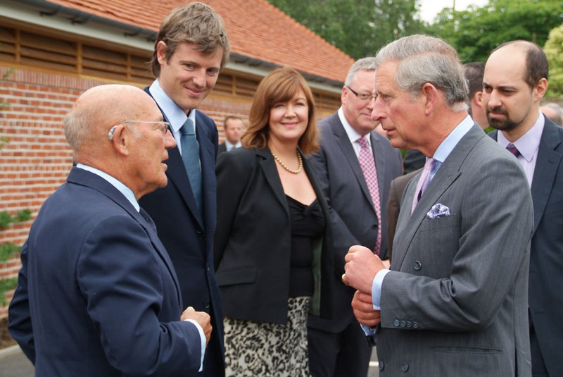 Sir Stirling Moss, Zac Goldsmith, HRH The Prince of Wales (Prince Charles) and event founder, Steven Glaser, at the royal launch of Revolve's first annual Eco-Rally at Hampton Court Palace on World Environment Day in June 2007.